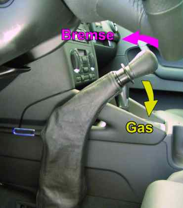 How it works Handbediengerät HD-RS